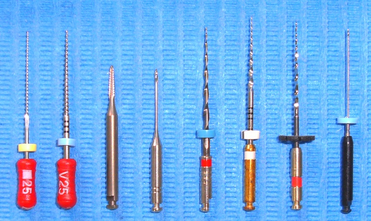 Various types of endodontic instruments, left to right: steel manual (k-file), Ni-Ti manual (Verifier), steel rotary (Batt's, Gates Glidden drill), Ni-Ti rotary (M-two, ProTaper, RaCe, LightSpeed)